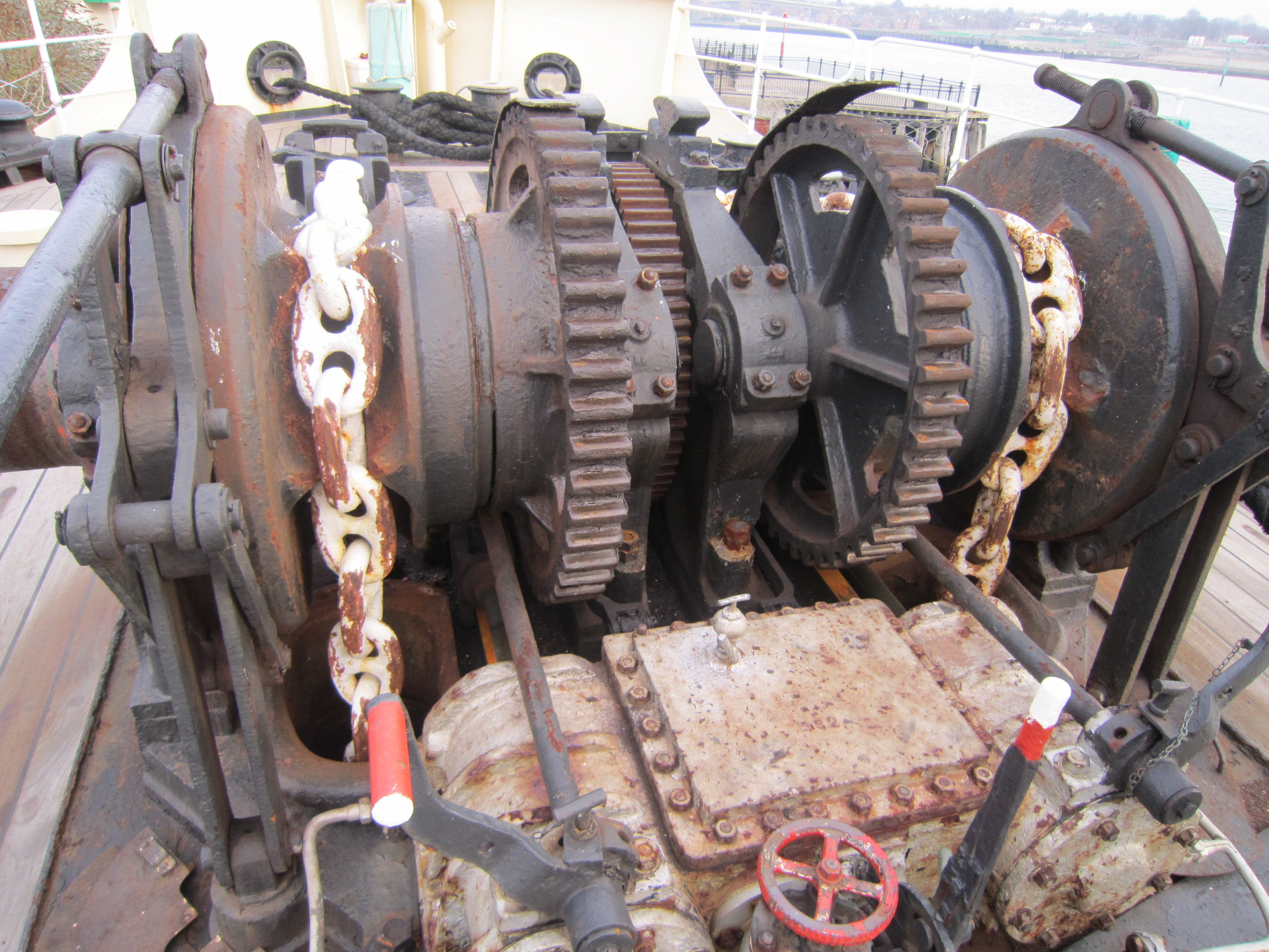 Anchor windlass on board SS Shieldhall. SS Shieldhall is a preserved steamship that operates from Southampton. She spent her working life as one of the "Clyde sludge boats", making regular trips from Shieldhall in Glasgow, Scotland, down the River Clyde and Firth of Clyde past the Isle of Arran, to dump treated sewage sludge at sea. These steamships had a tradition, dating back to World War I, of taking organised parties of passengers on their trips during the summer. SS Shieldhall has been preserved and the accommodation is again being put to good use for cruises.